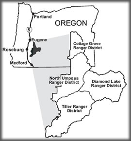 Vicinity map of the Umpqua National Forest, from the US Forest Service website.